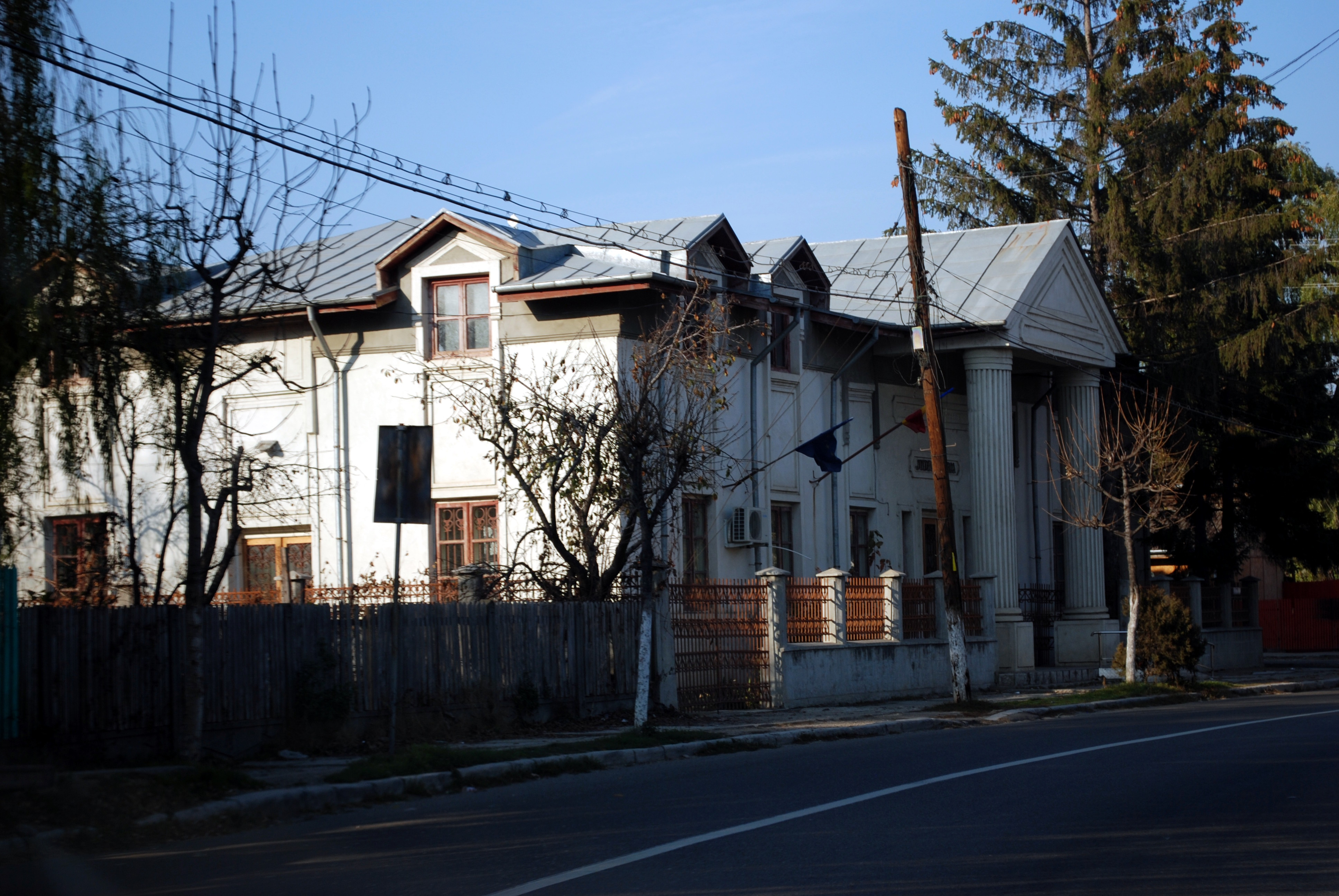 The courthouse from Pătârlagele, Buzău, Romania